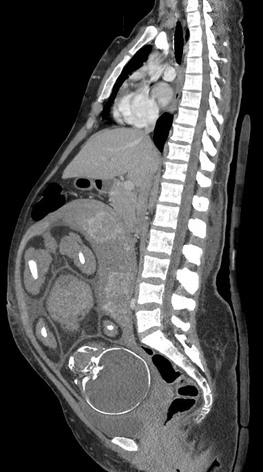 CT scan in the median plane using radiocontrast, of a 30 year old woman who was involved in a high-speed traffic accident. She was pregnant at 37 weeks of gestational age, and it was decided that the risk of traumatic injury to the mother or child outweighed the risks of a CT scan, which was therefore performed, and showed no traumatic injury.